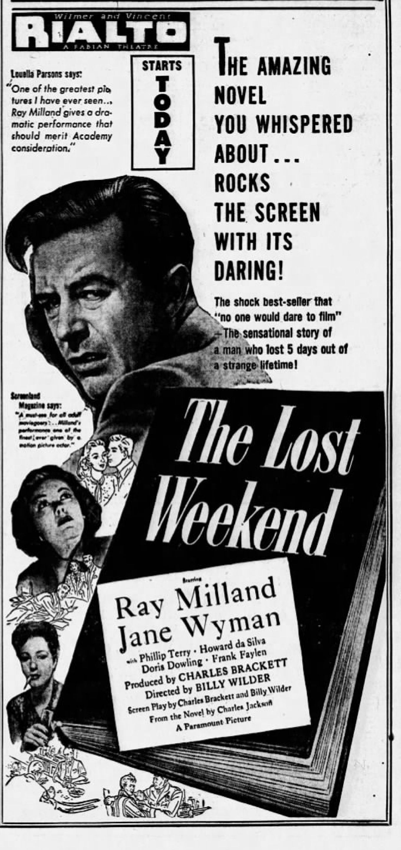 Colonial Theater advertisement for the American film The Lost Weekend (1945) - 5 Feb. 1946 Morning Call, Allentown PA